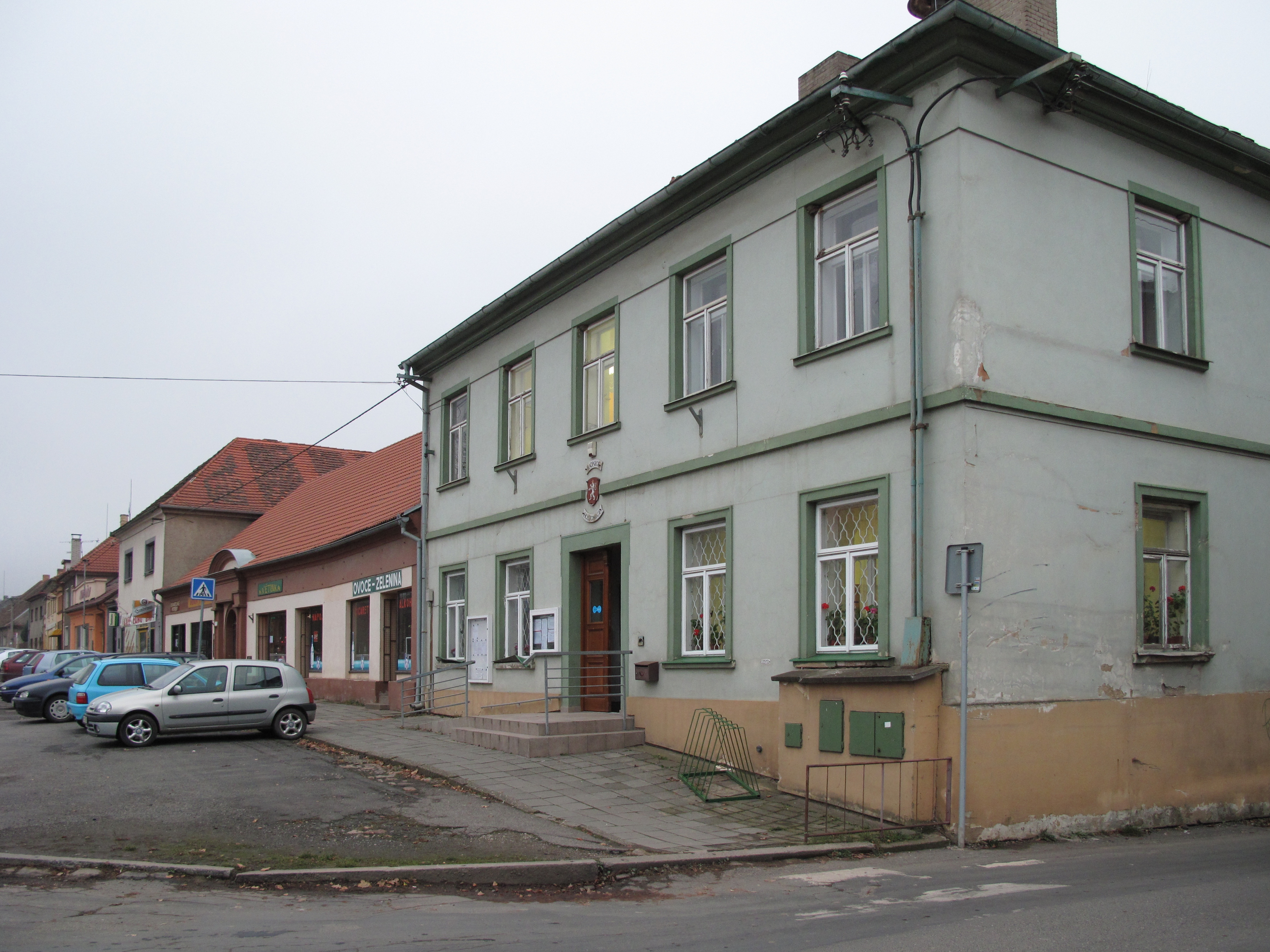 Municipal office at Hostomice village square, Beroun District, Czech Republic.